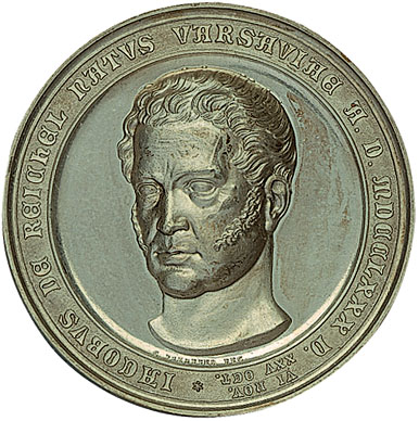 Jakow Jakowlewitsch Reichel 1778—1856, Russian engraver & historian. Commemorative medal